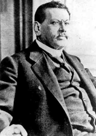 This is an image of Hugo Preuß. (1860-1925)